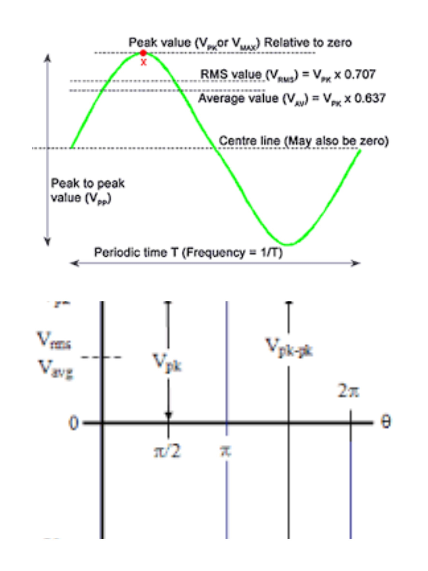 साइन वेव (तरंग) और स्क्वेर वेव (तरंग )